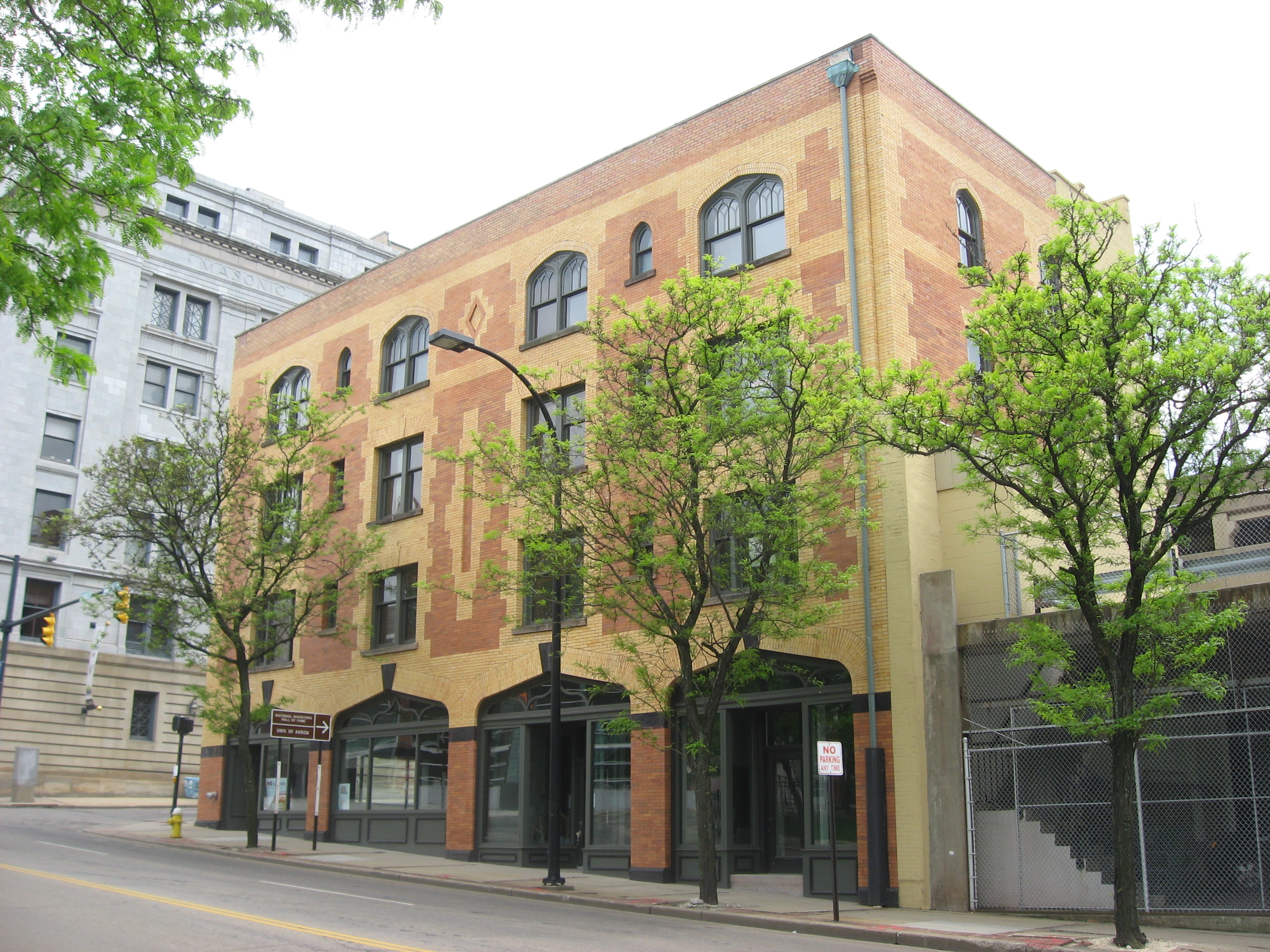 Northern front of the Gothic Building, located at 52-58 E. Mill Street and 102 S. High Street (State Route 261) in Akron, Ohio, United States. Built in 1902, it is listed on the National Register of Historic Places.